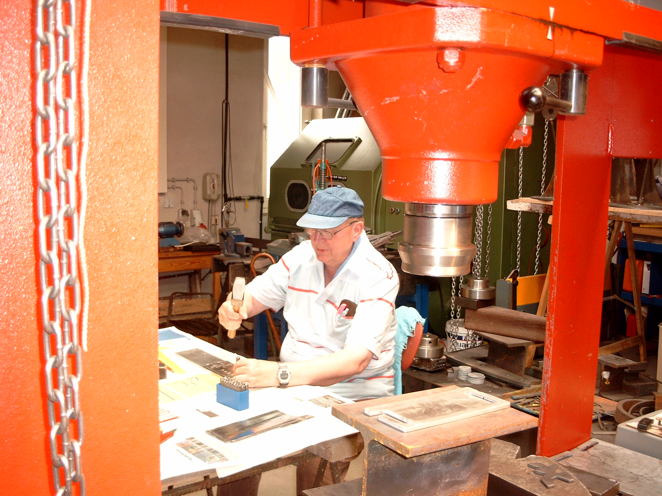 Prof. Dr. Claus-Frenz Claussen, the artist at work